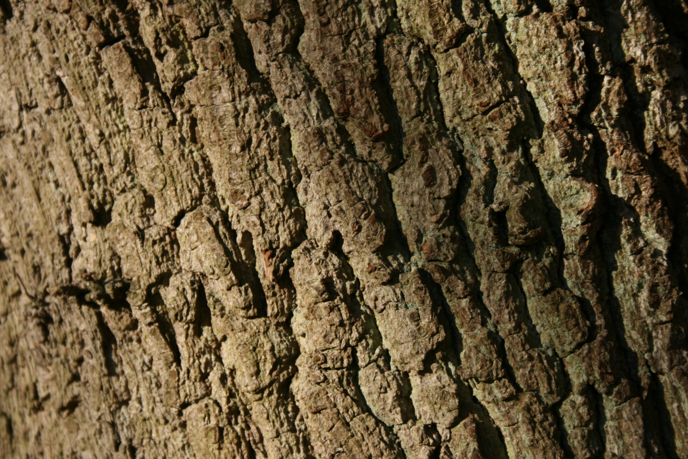 Quercus robur: Bark